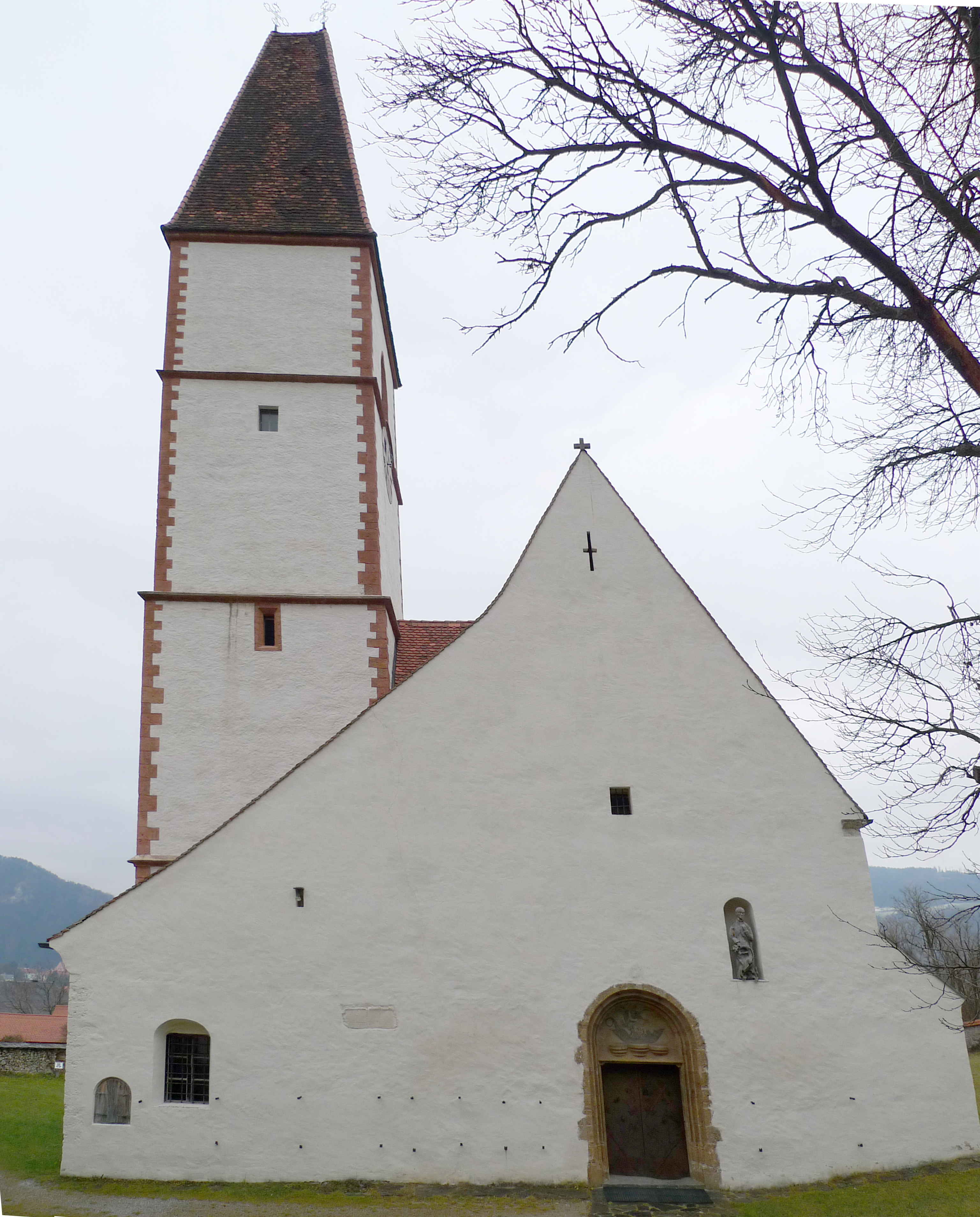 Filialkirche St.Georg in Adriach, Gemeinde Frohnleiten, Steiermark